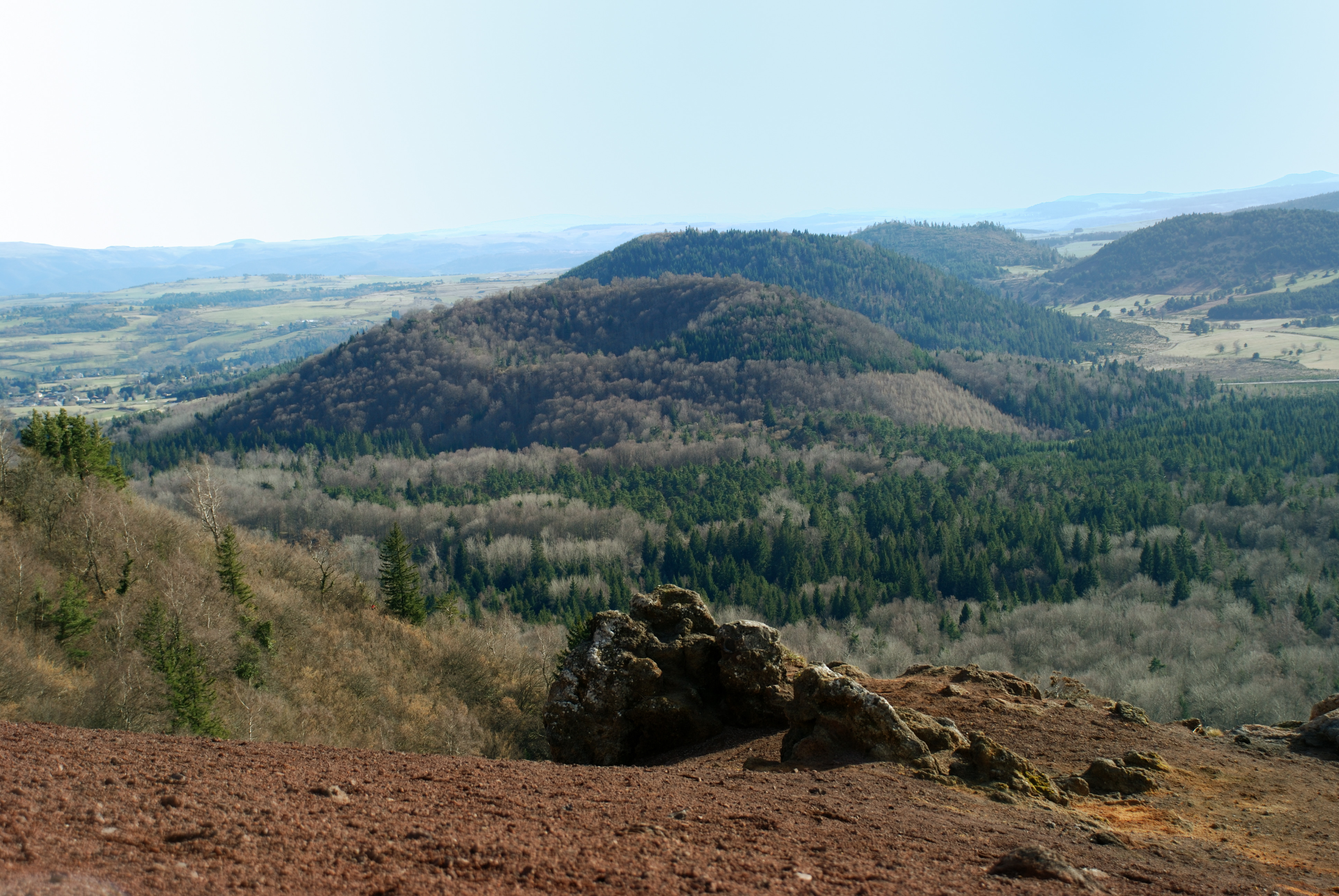 Chaîne des Puys : Puy de Vichâtel (1094 m) (Puy-de-Dôme, France).